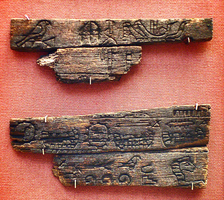 Fragmented ebony label of Hor Aha, with a reference to the shrine of the goddess Neith of Sais. Originally from Abydos, now in the British Museum 35518. (Donated by the Egyptian Exploration Fund in 1901) The label shows an official visit of Hor Aha to two of the most important shrines of the Western Delta. Four horizontal registers, three of them with historical character, make up the main face of the label, fragmented in its middle: In the 1st one, on the left, is the "serekh" the king himself as the personification of Horus Aha. This is a detail, which alone allows us to date the piece to the reign of this king. Facing Hor Aha, stood at the top, a sign "more" followed by a pole with the sign of the god Amiut (an archaic form of Osiris). Behind it, two sacred boats float on the sanctuary of the goddess Neith of Sais (lost here). In the 2nd record, here practically lost, guess on the far right, the structure of a famous chapel in the city of Buto, known by the texts under the name of "Db'wt". The 3rd record, still confused interpretation, presents a group of ships that are sandwiched between two walled cities. The first of these localities seems Sau (Sais), the religious center of the goddess Neith, while the second seems to be Pe (Buto), former center of worship of predynastic kings in the Delta. Finally the 4th record, is occupied by a text that appears to reveal the contents of the jar itself, which was originally attached this tag: "300 steps of ` Fragrance of Horus' " (an oil). Bibliography: Petrie, W.M.Flinders. 1901. The royal tombs of the first dynasty. Part II, Pl XI. Wilkinson, Toby A. H. 1999. Early Dynastic Egypt, p. 317-320.